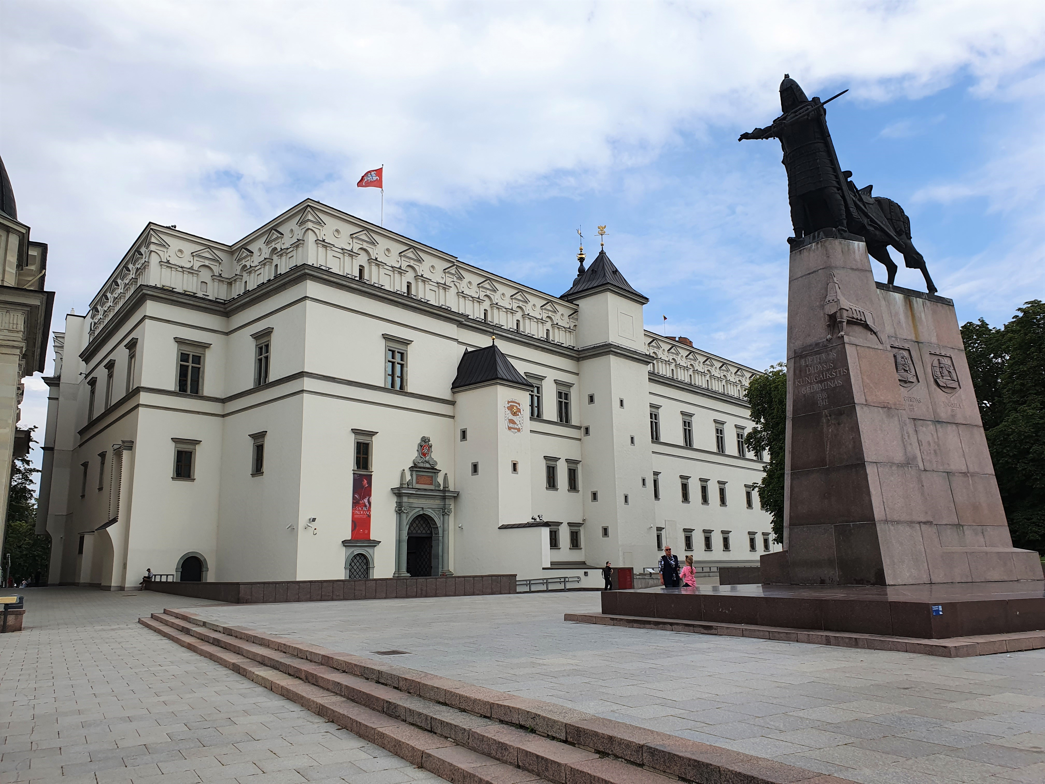 Palace of the Grand Dukes of Lithuania and Gediminas Monument in Vilnius.